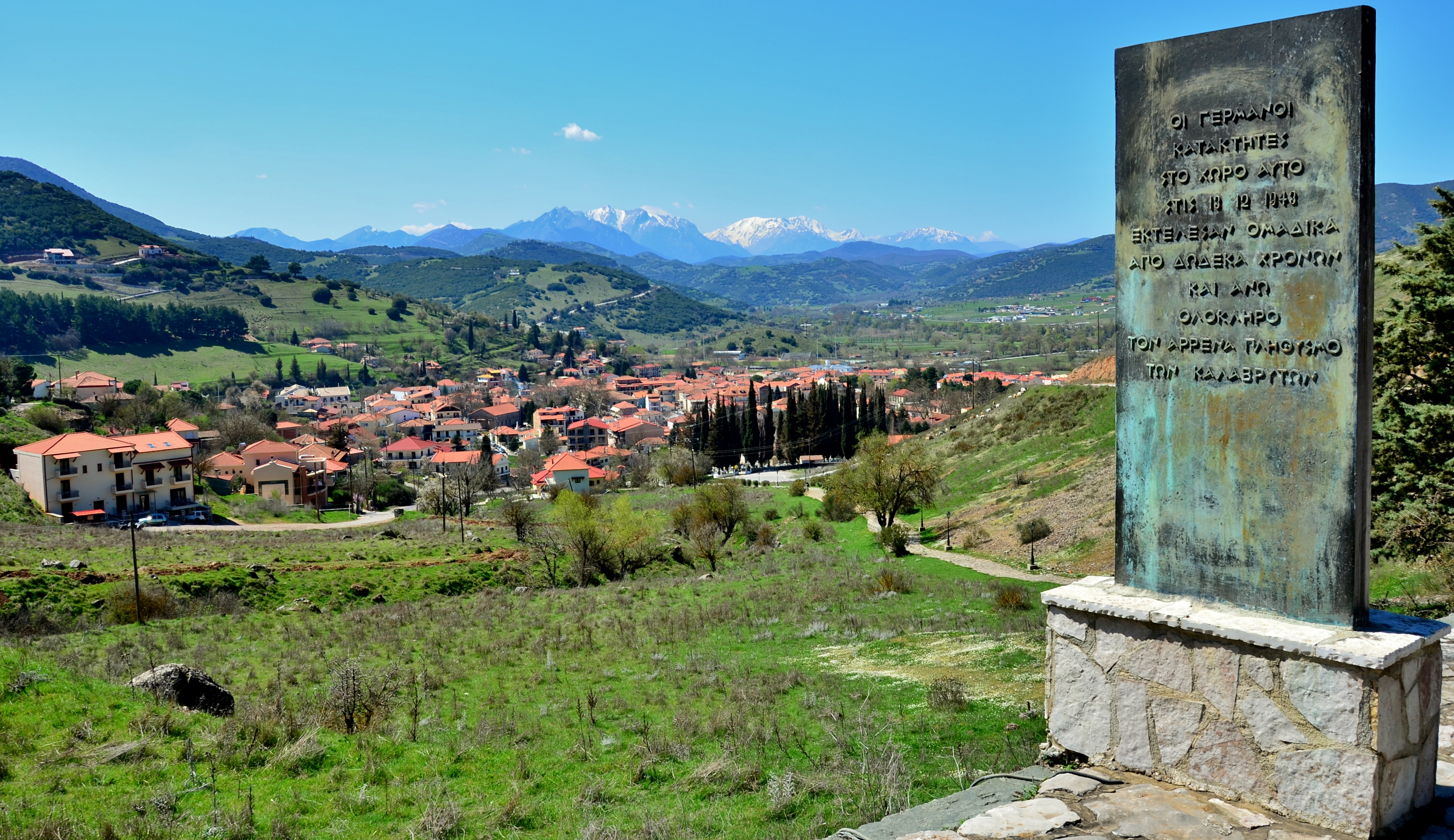 View of Kalavryta